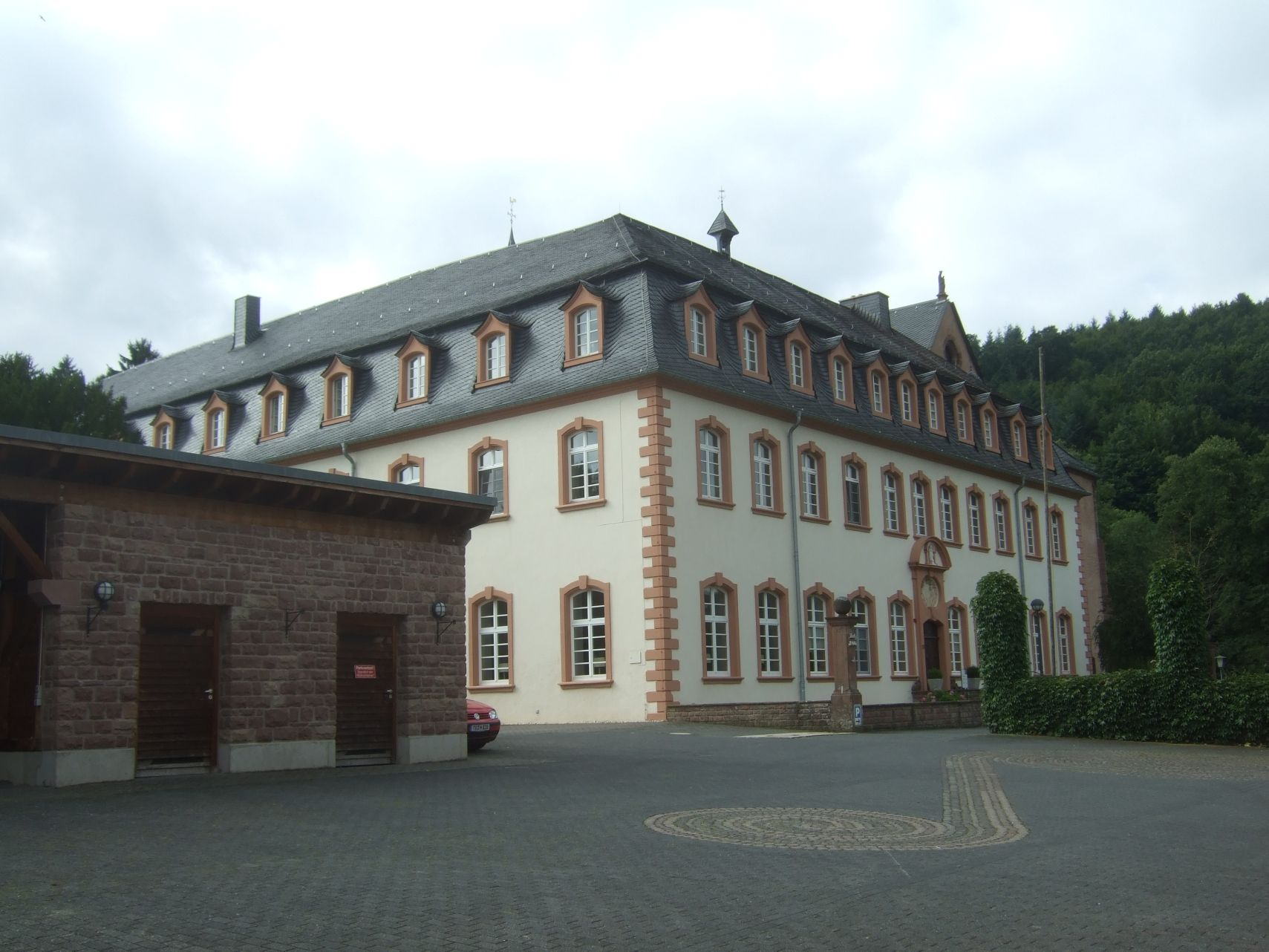 Sankt Thomas (Eifel)